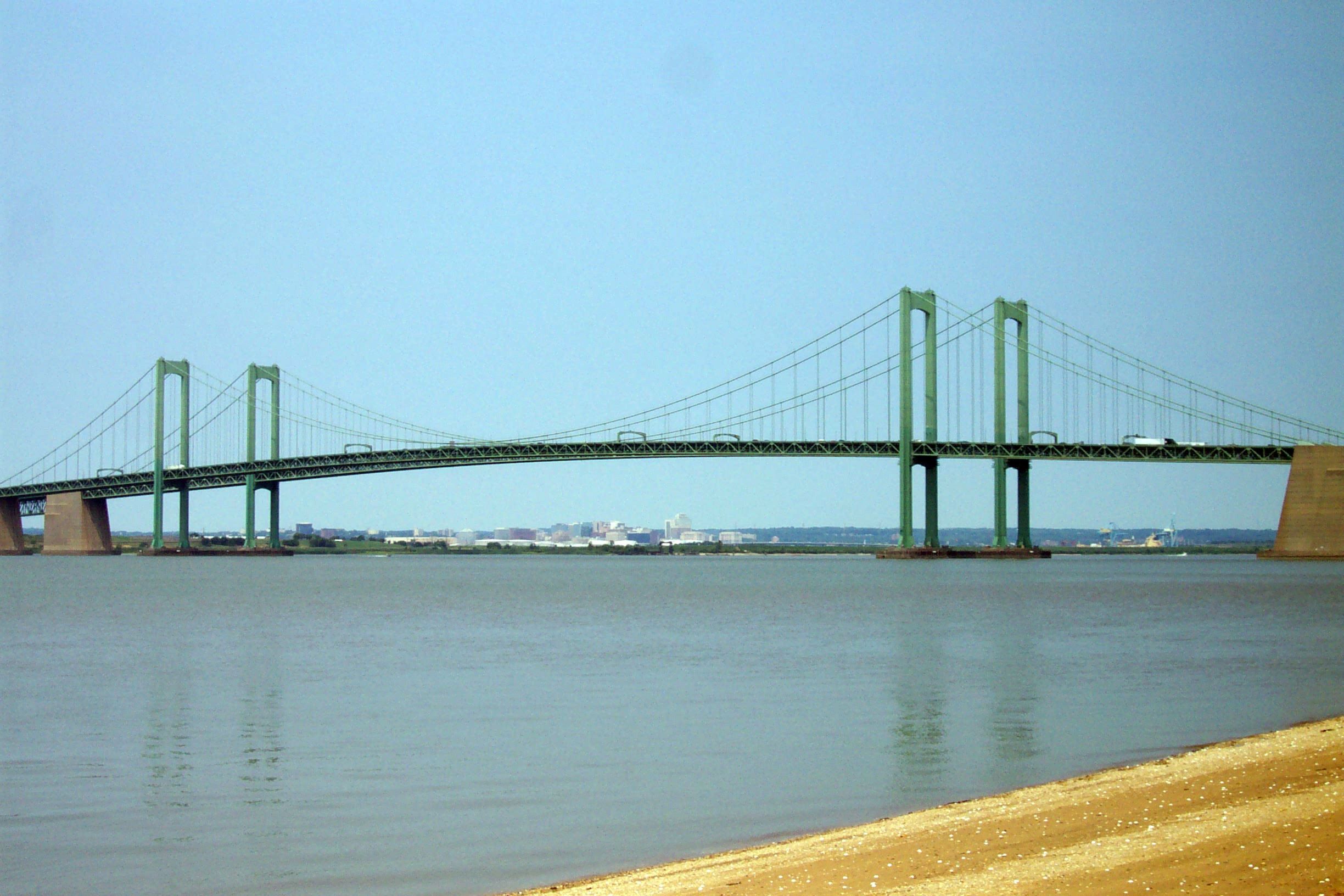 Delaware Memorial Bridge